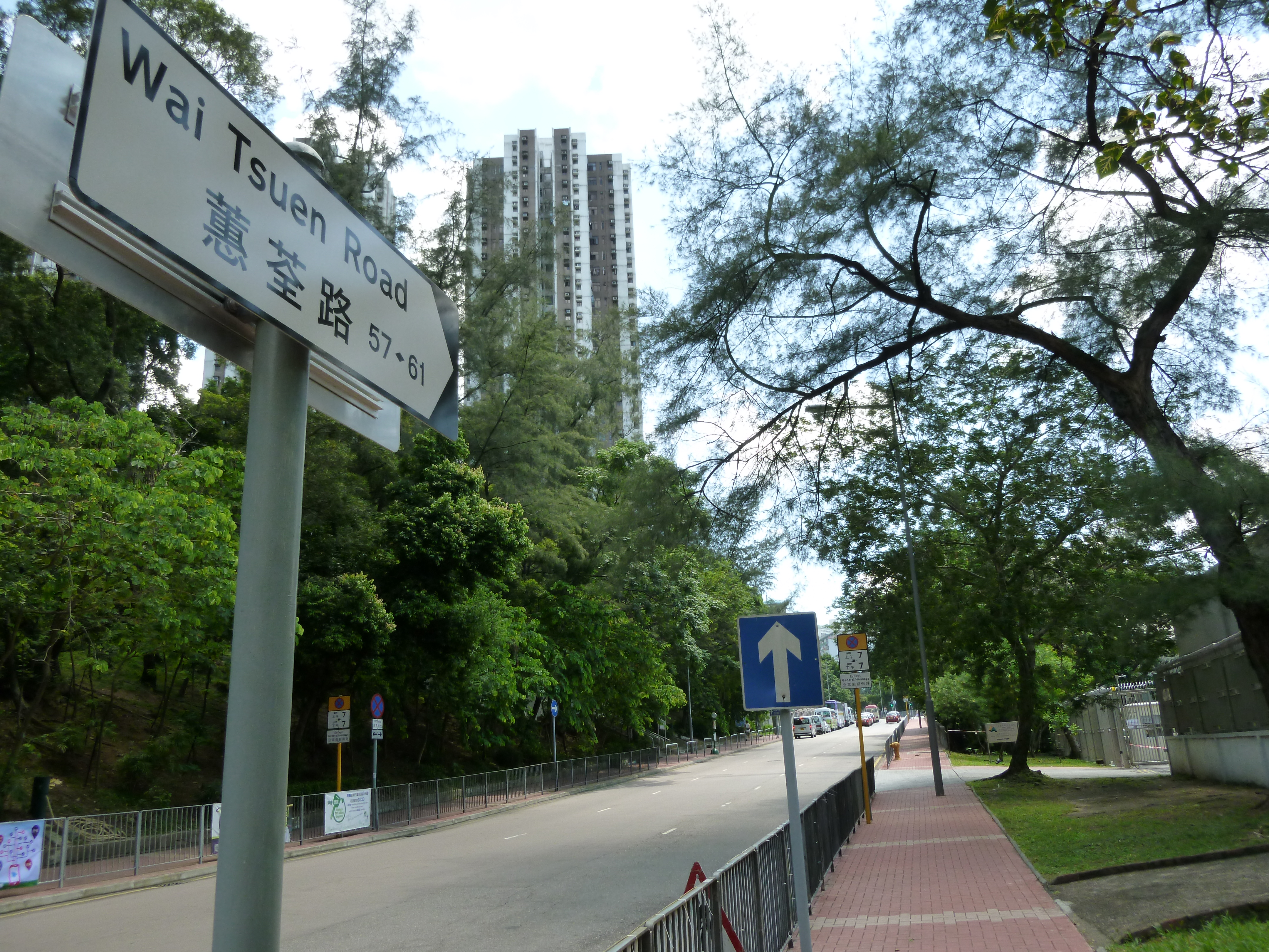 Wai Tsuen Road (Tsuen Wan, Hong Kong)中文（香港）: 蕙荃路 (香港新界荃灣區)